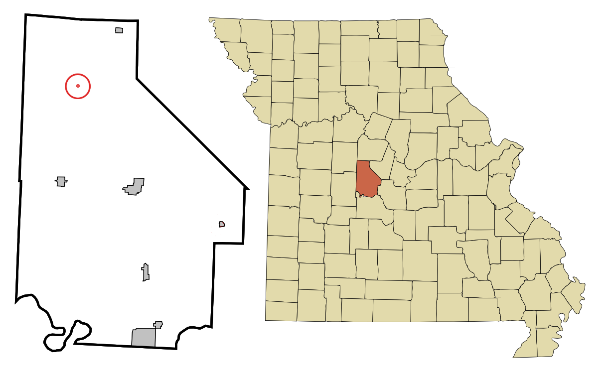 Approximate location of Florence, Missouri.